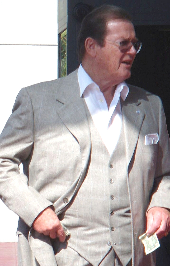 Roger Moore in the United States, 2007. Cropped from the original.